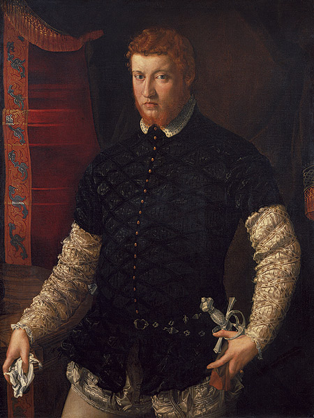 Francesco de' Rossi's painting 'Portrait of a Man'